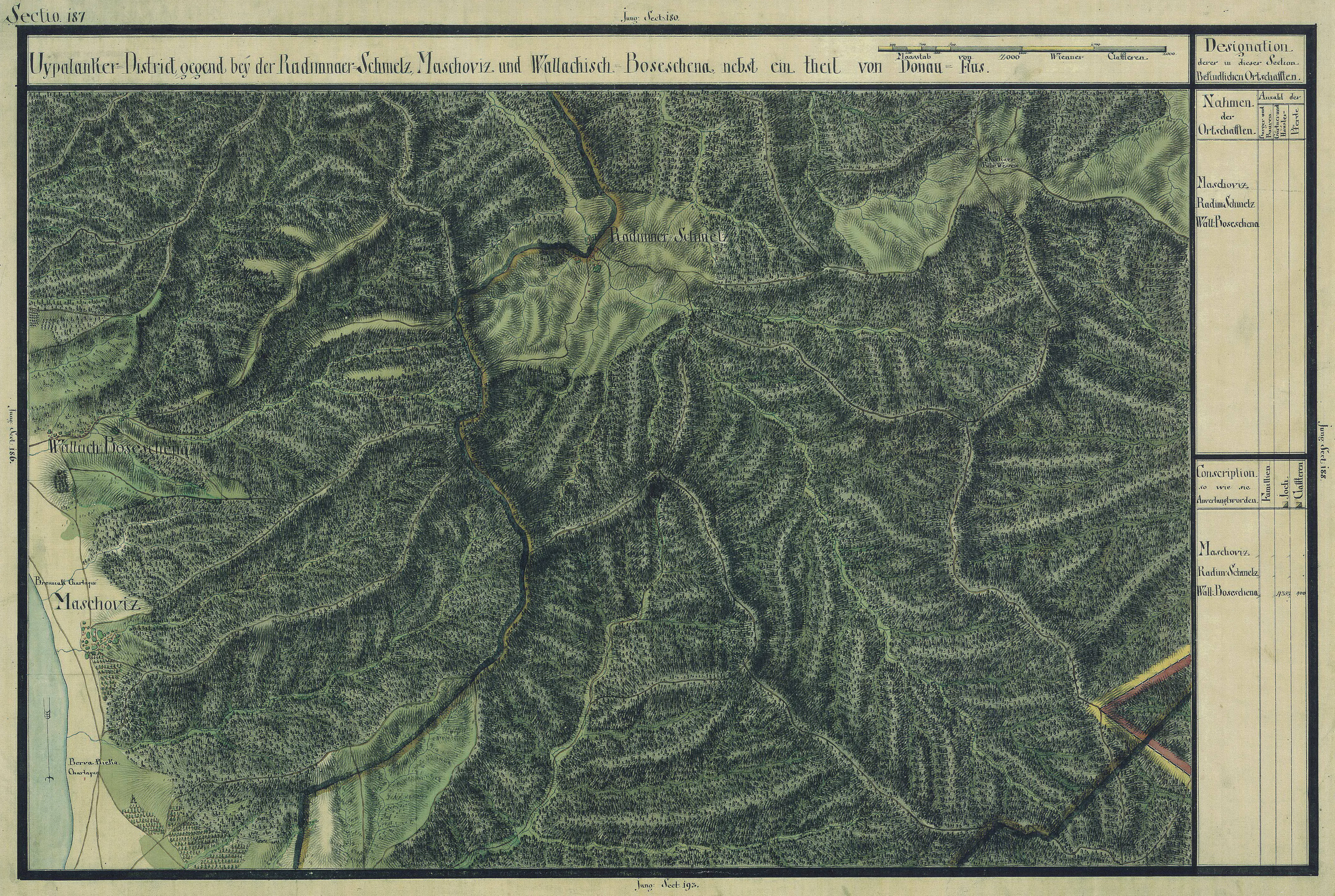 The Banat region in the cadastral maps: Josephinische Landesaufnahme, 1769-72. Josephinische Landaufnahme pg187